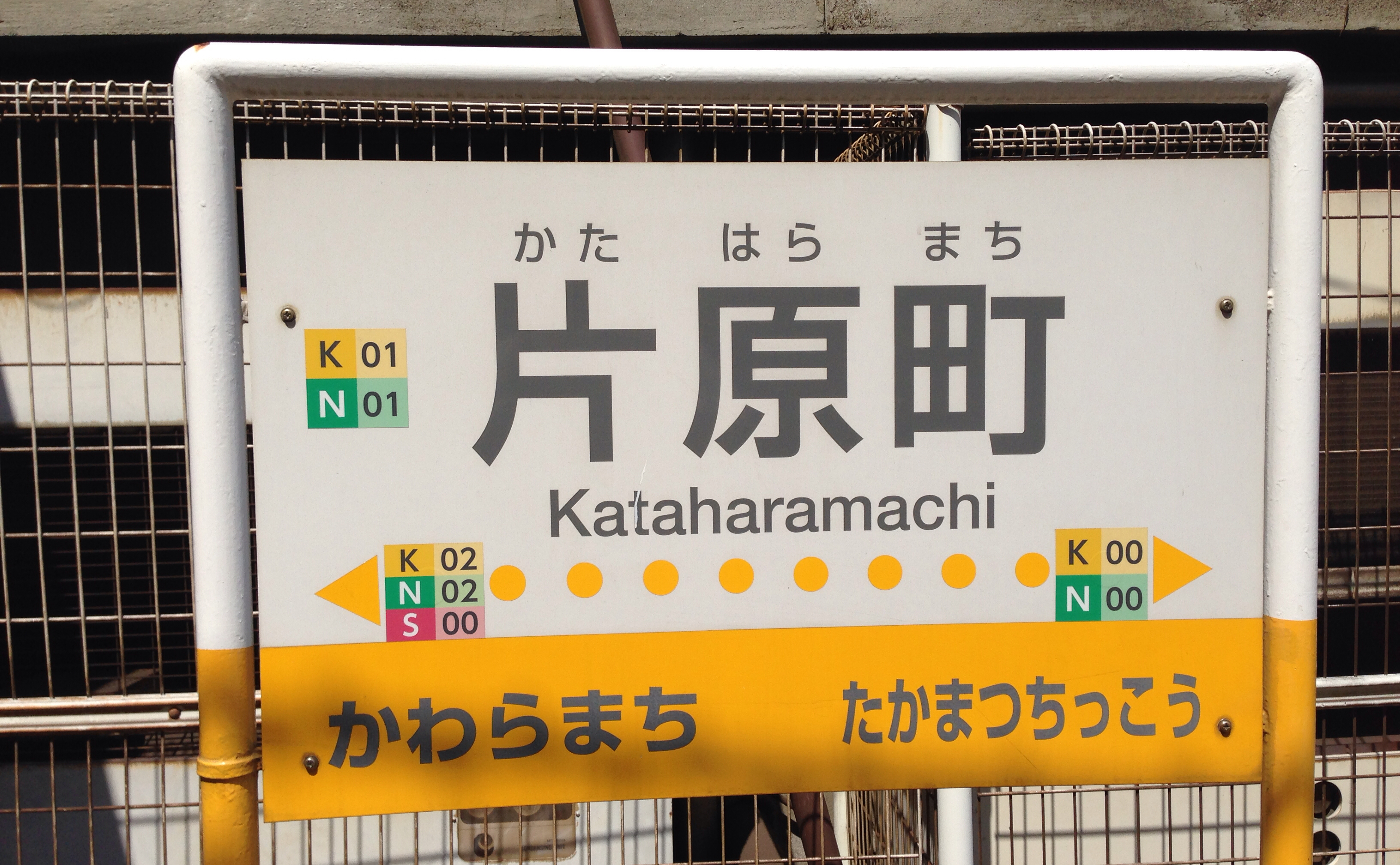 Kataharamachi Station (kagawa) Station Name Plate (Track No.1 for Takamatsu-chikko).